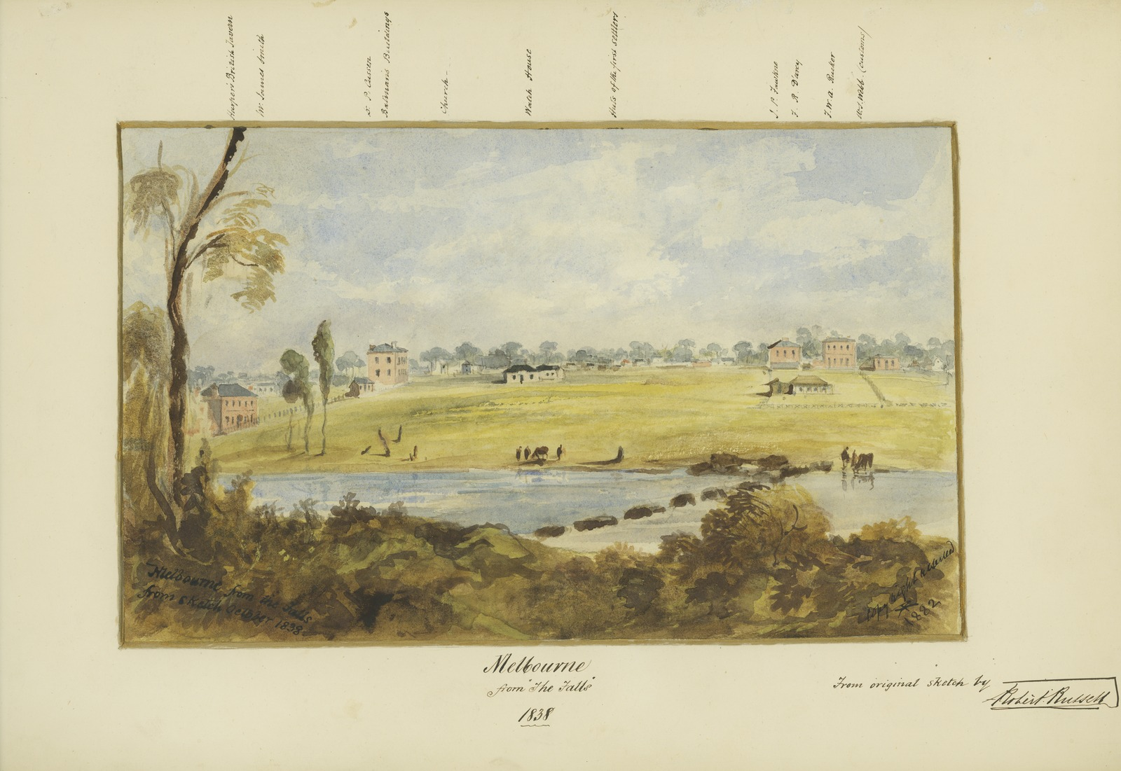 Melbourne from "The Falls", near Queen Street, sketch from 1838 by Robert Russell.